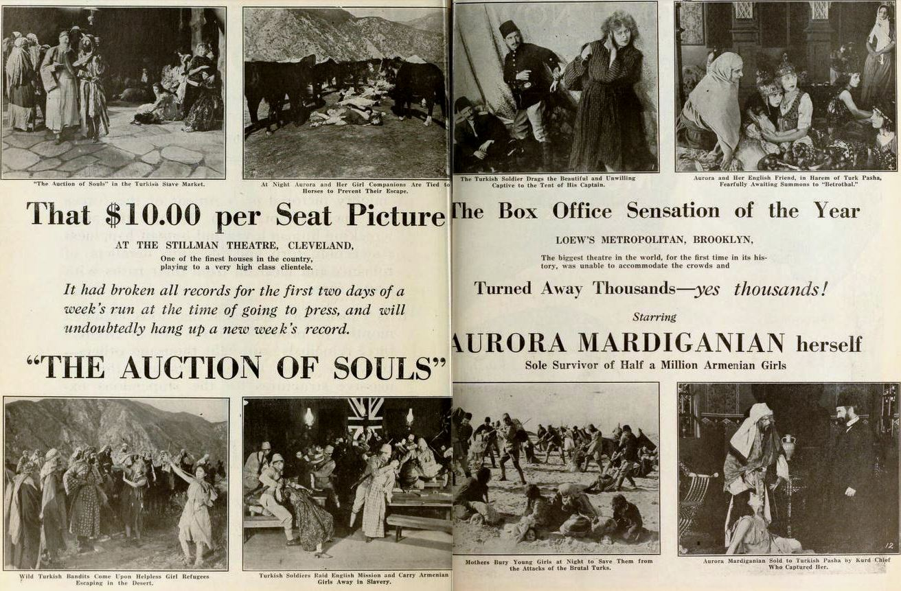 Ad for the American film Auction of Souls (1919) aka Ravished Armenia with Aurora Mardiganian, on pages 1124 and 1125 of the May 24, 1919 Moving Picture World.